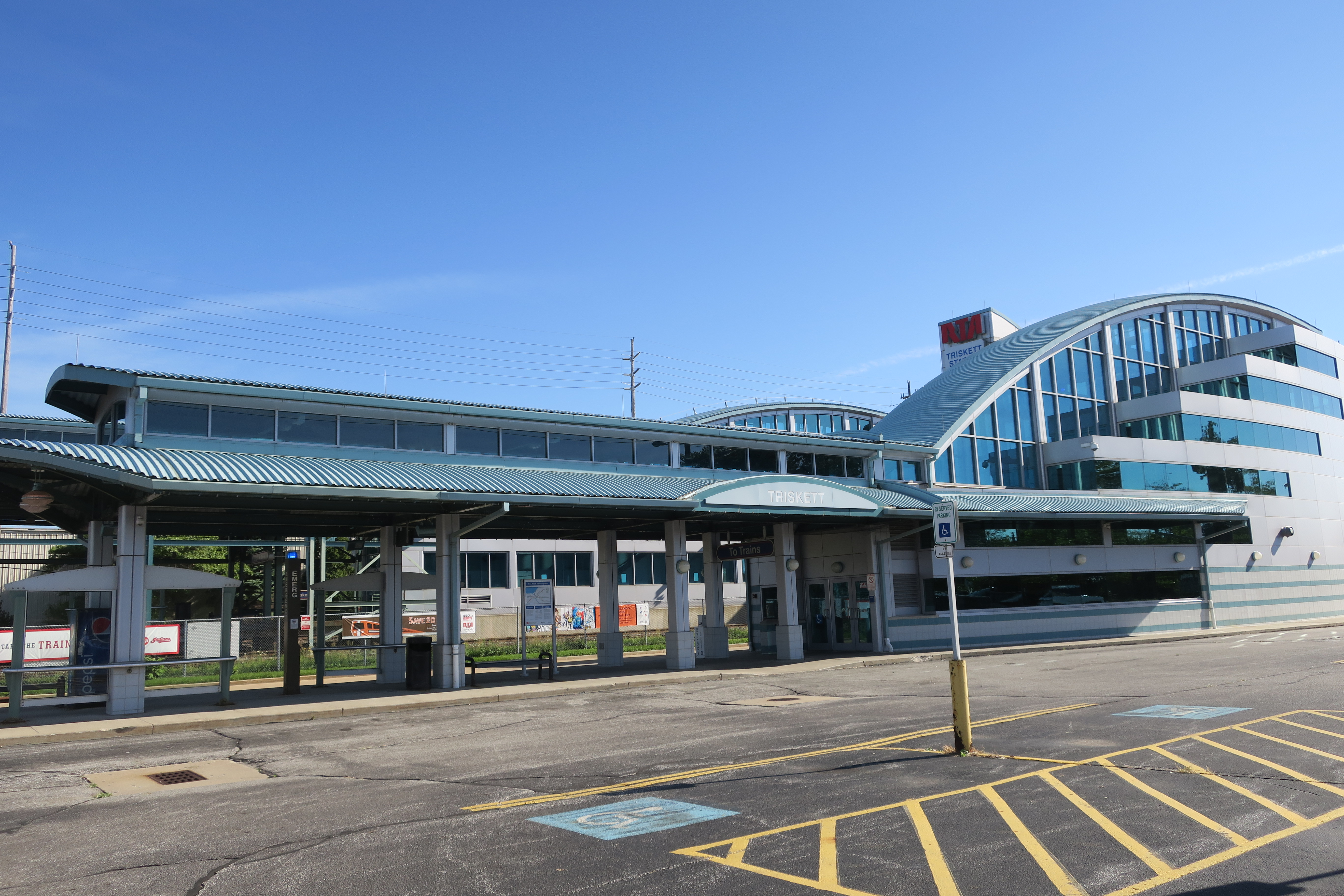 The Triskett Station on the Red Line in Cleveland, Ohio as seen from the parking lot.